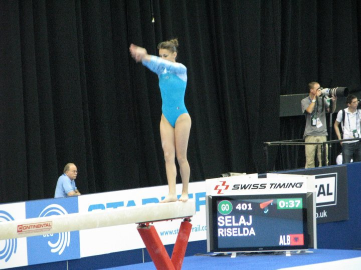 Riselda Selaj on beam during European Championship in Birmingham 2010